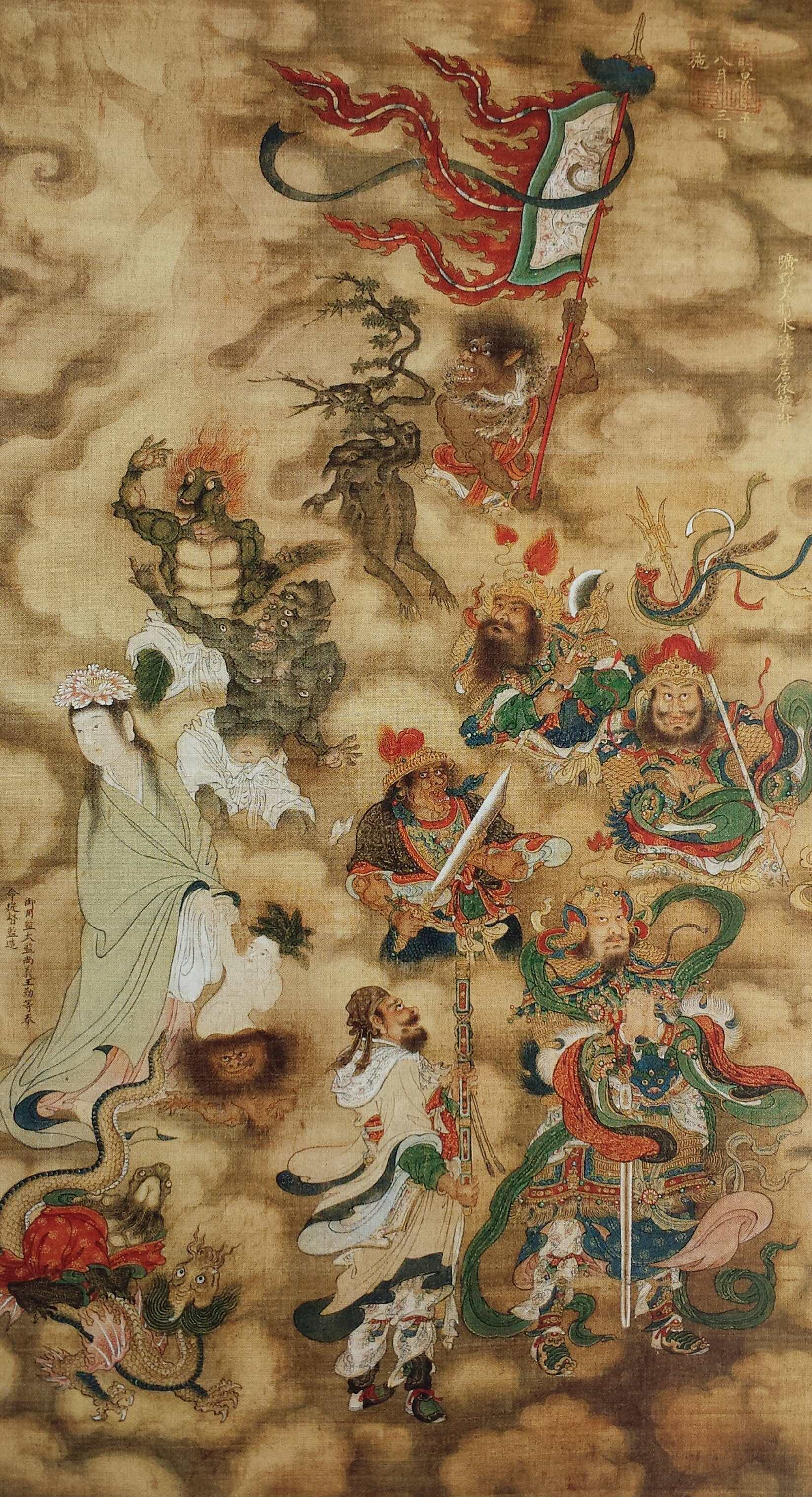 Great Generals of the Desert and the Spirits of Grasses and Trees Who Dwell in the Void of Water and Land. Ming dynasty hanging scroll, ink, colors and gold on silk. 140.5 x 78.5 cm. Guimet Museum, Paris.